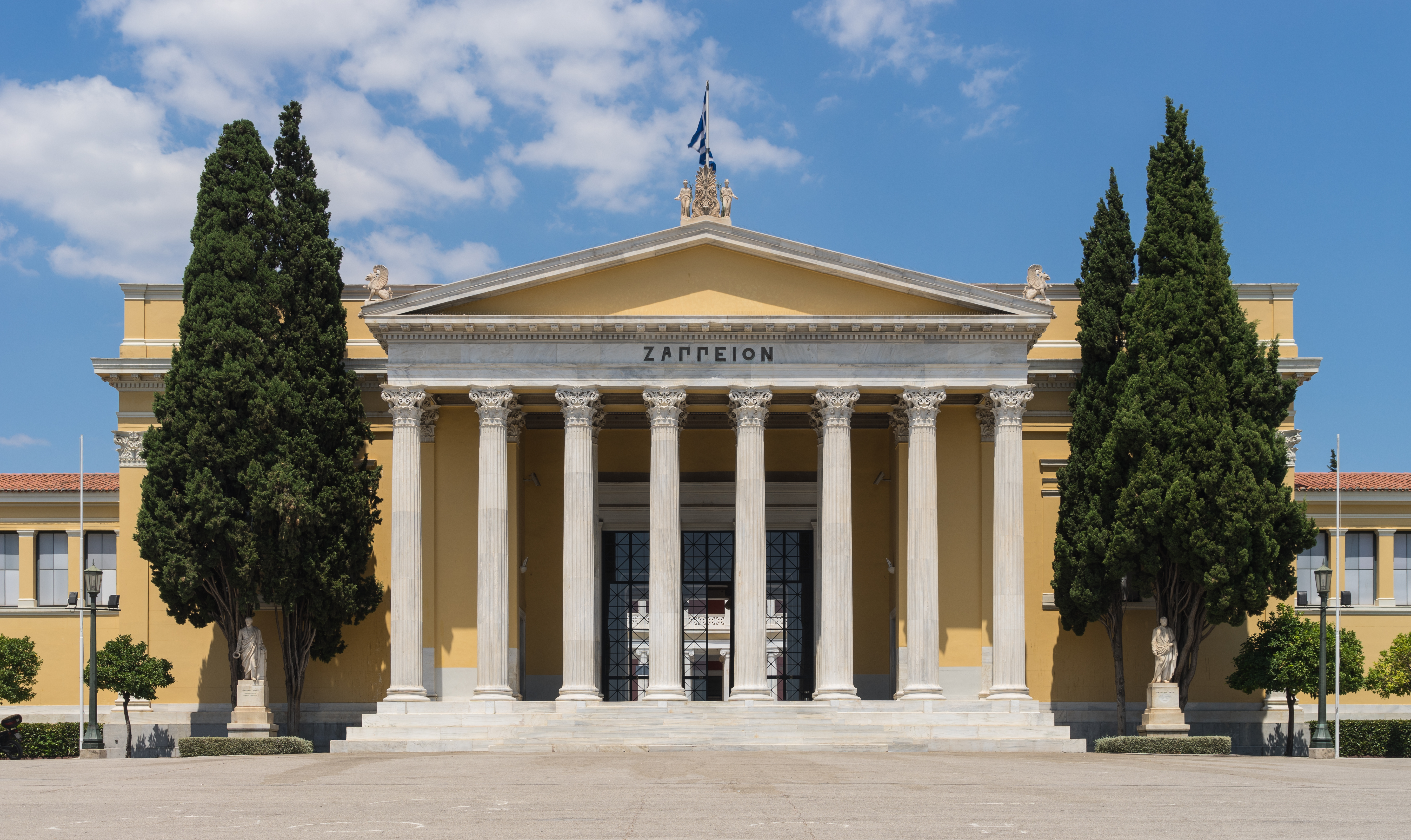 Facade of the main building of the Zappeion, Athens, Greece.